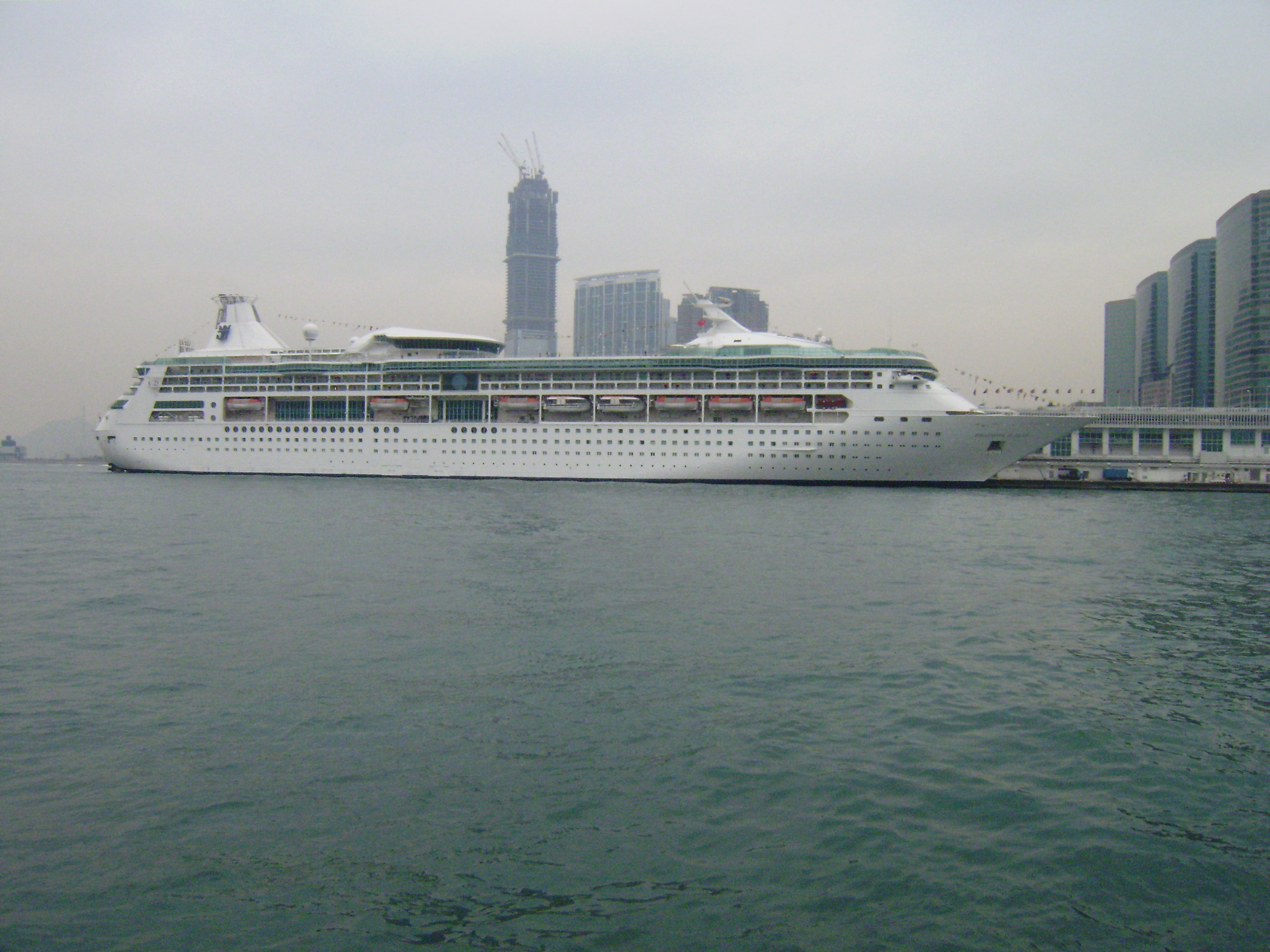 Rhapsody of the Seas in Hong Kong